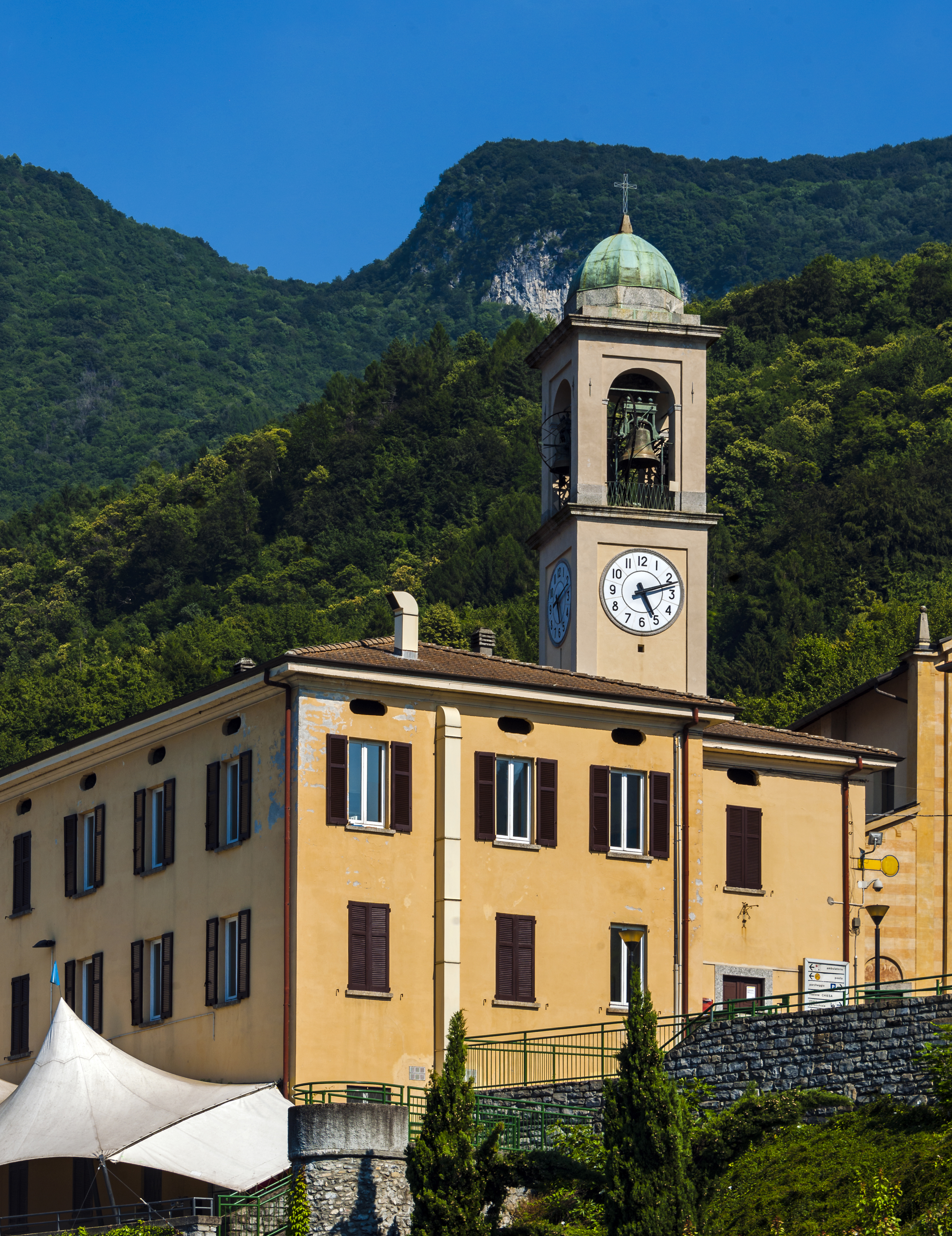 City hall building with tower of Church of Saints Quirico and Giulitta behind from ferry docking in Lezzeno, Italy